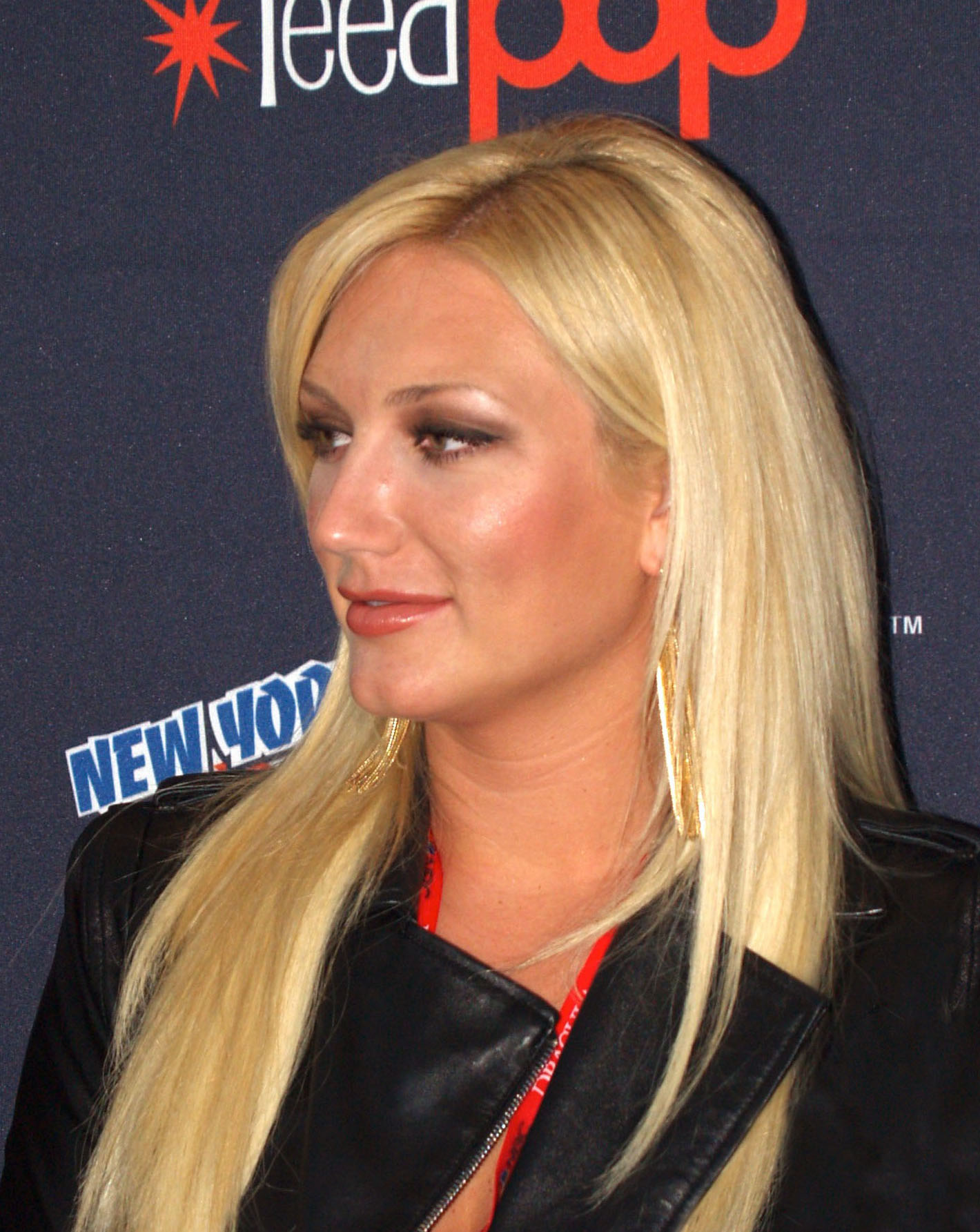 Actress/singer Brooke Hogan during a press event for the Cartoon Network TV series China, IL (on which Hogan has done voice work) and Rick and Morty at the Jacob K. Javits Convention Center in Manhattan, on Saturday October 12, 2013, Day 3 of the 2013 New York Comic Con. This photo was created by Luigi Novi. It is not in the public domain, and use of this file outside of the licensing terms is a copyright violation.